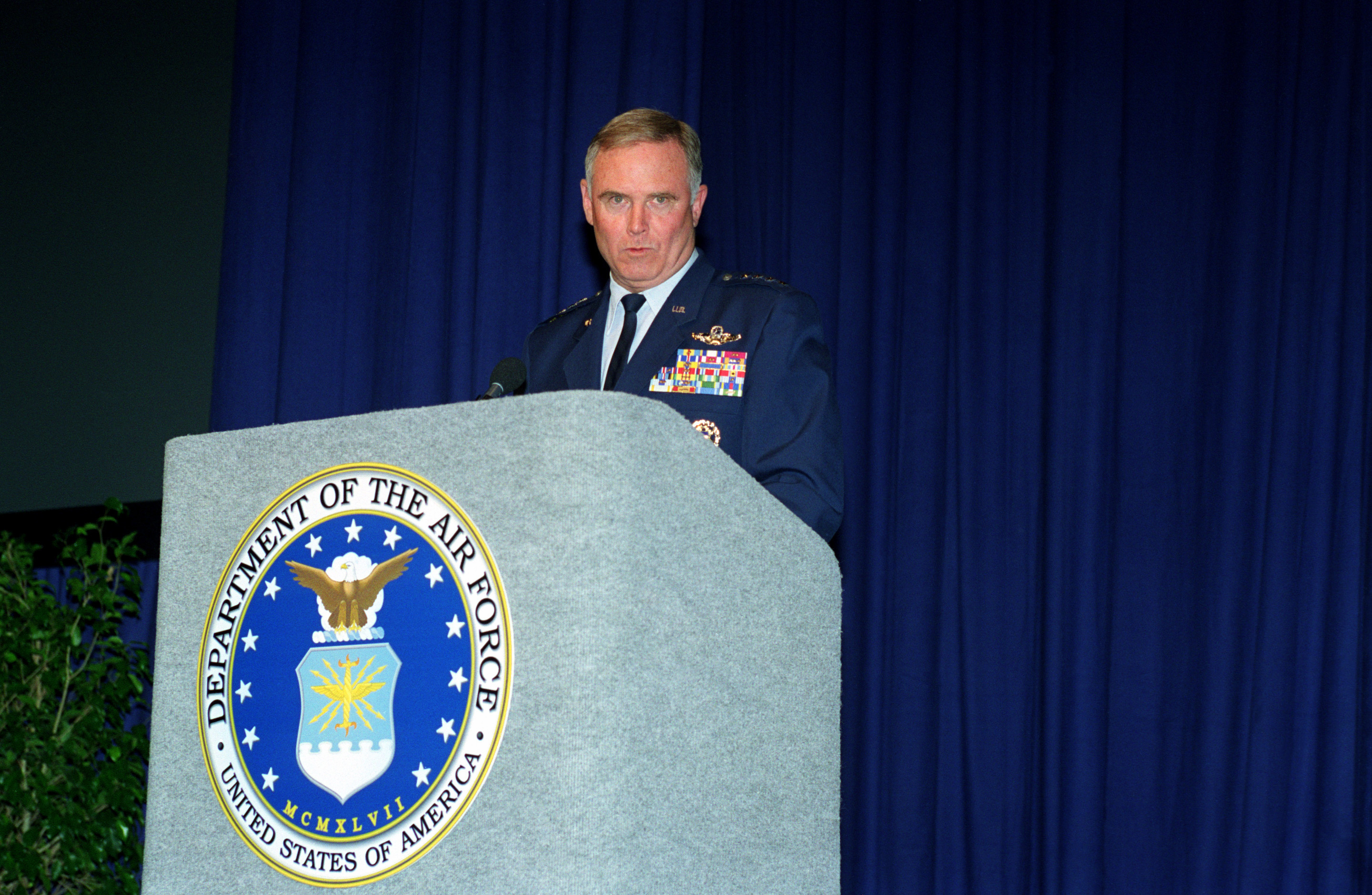 Air Force Chief of Staff General Michael E. Ryan speaks speaks to attendees of the Air Force Quality Symposium held at the Montgomery Civic Center on 16 October, 1997.